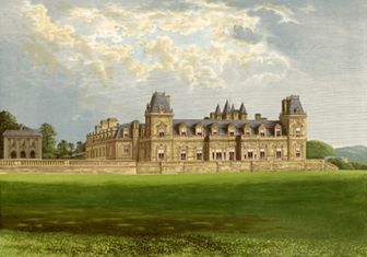 Stevenstone House, in the parish of St Giles in the Wood, near Great Torrington, Devon. Built by Hon. Mark Rolle (1835-1907) between 1869-73 to design of Charles Barry junior. Demolished. Published in Morris, Rev. F.O. Picturesque Views of Seats of Noblemen & Gentlemen of Great Britain & Ireland, London, 1880